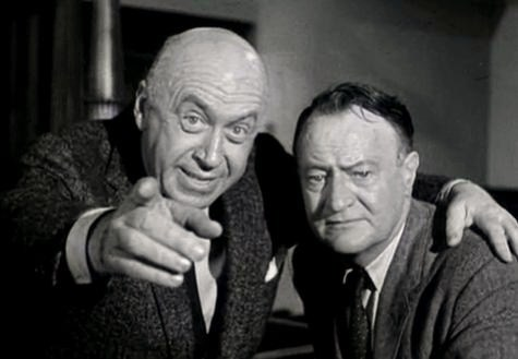 Otto Preminger & John D. Voelker in Anatomy of a Murder - trailer (cropped screenshot)